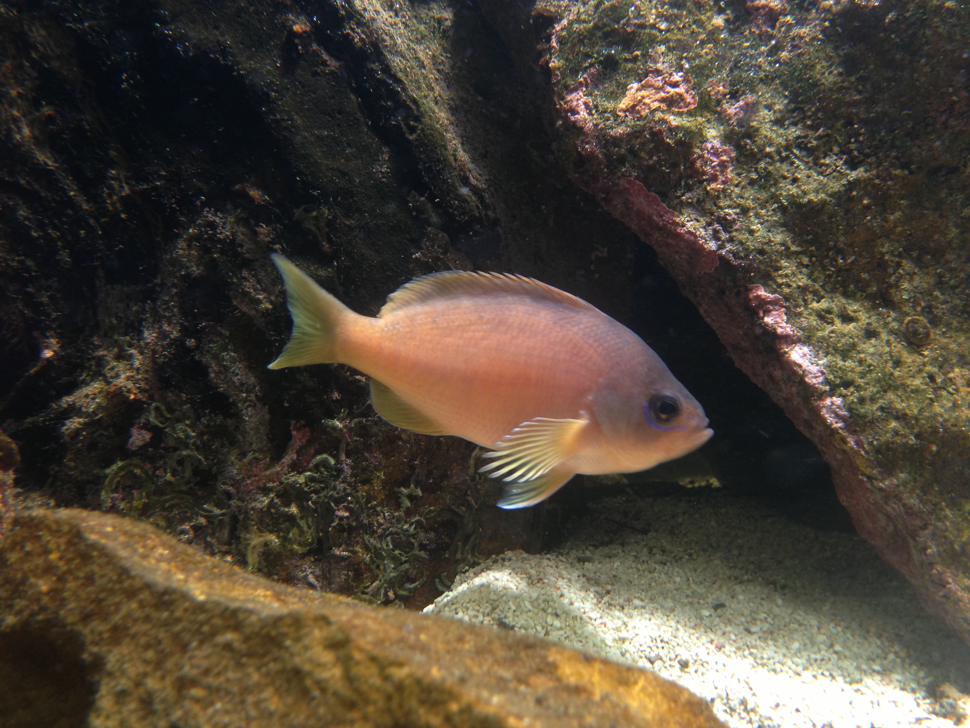 The barber sea perch (Caesioperca razor), an Australian fish.